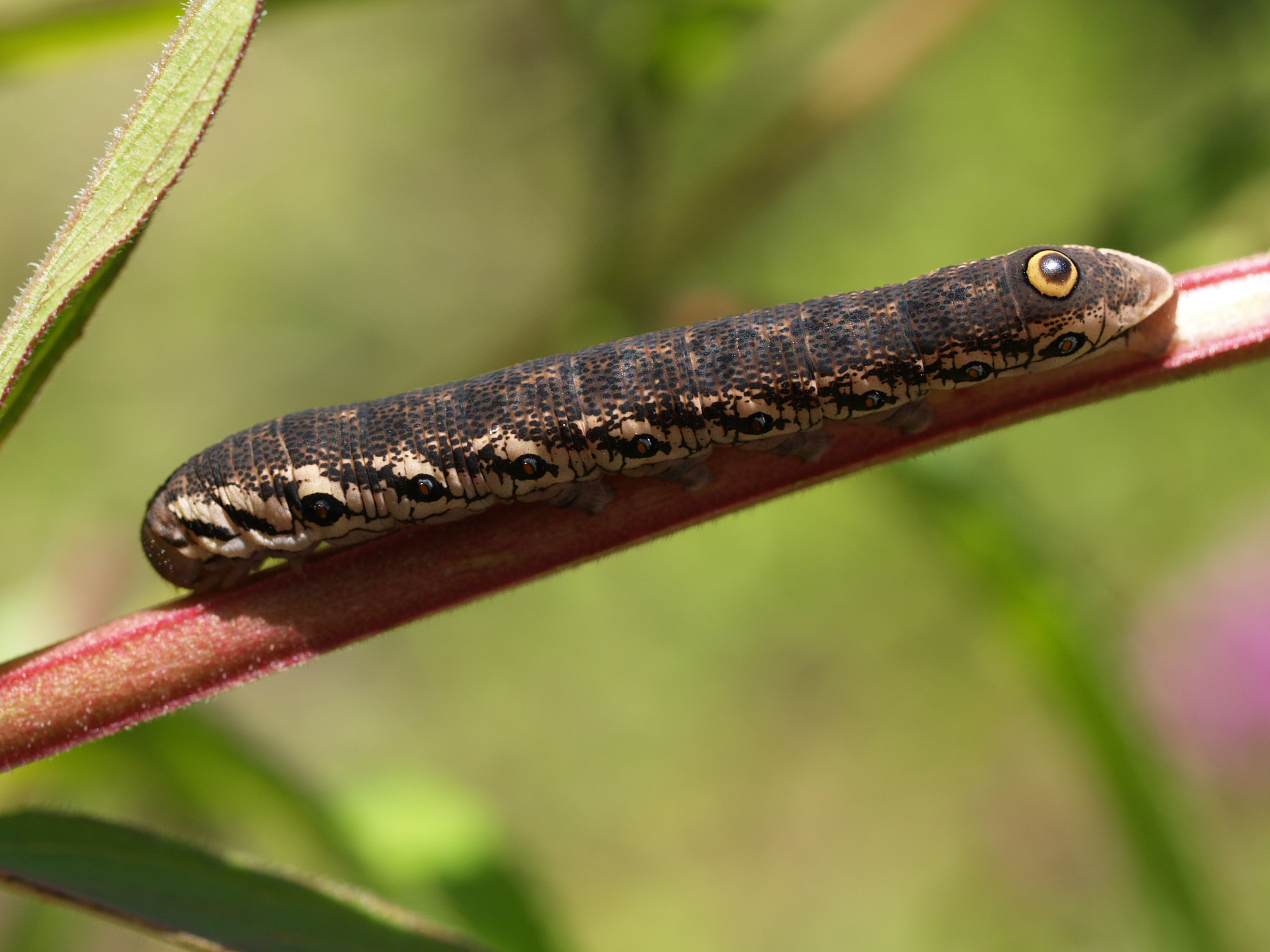 Willowherb Hawkmoth (Proserpinus proserpina), caterpillar, picture taken in Munich/Bavaria